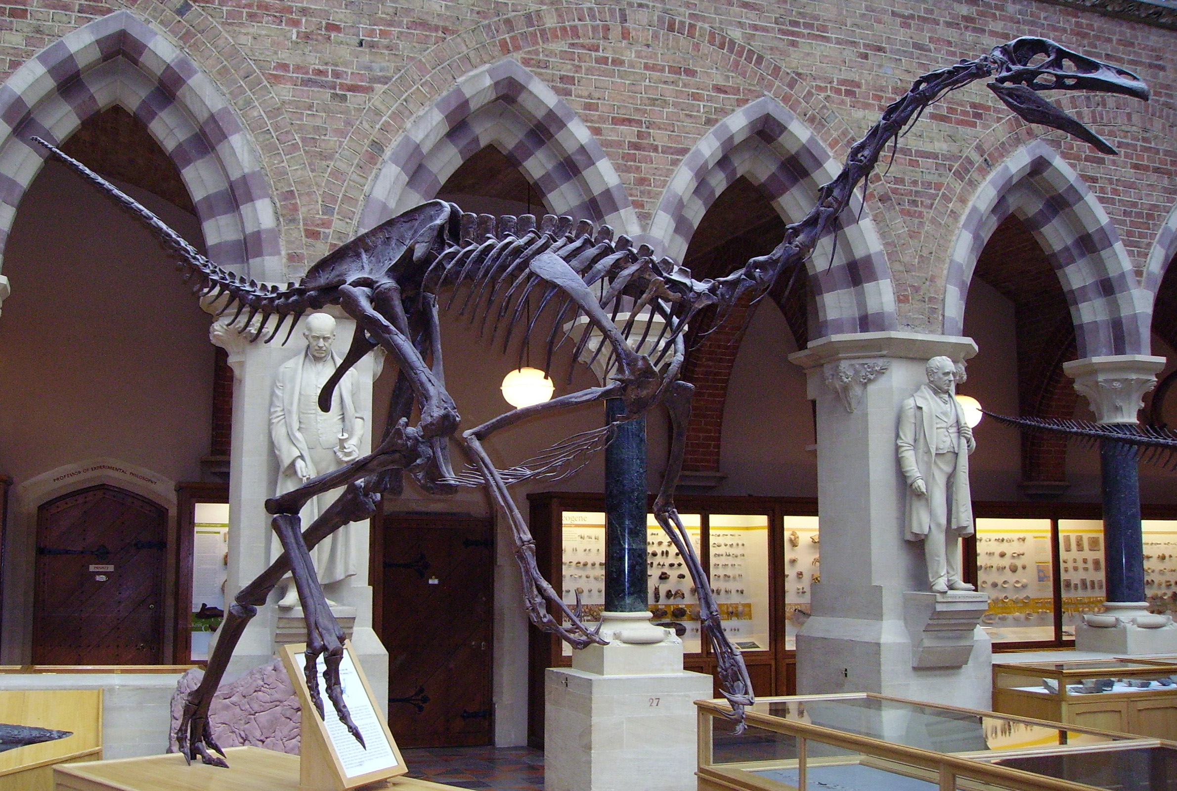 Struthiomimus sedens skeleton in the Oxford University Museum of Natural History